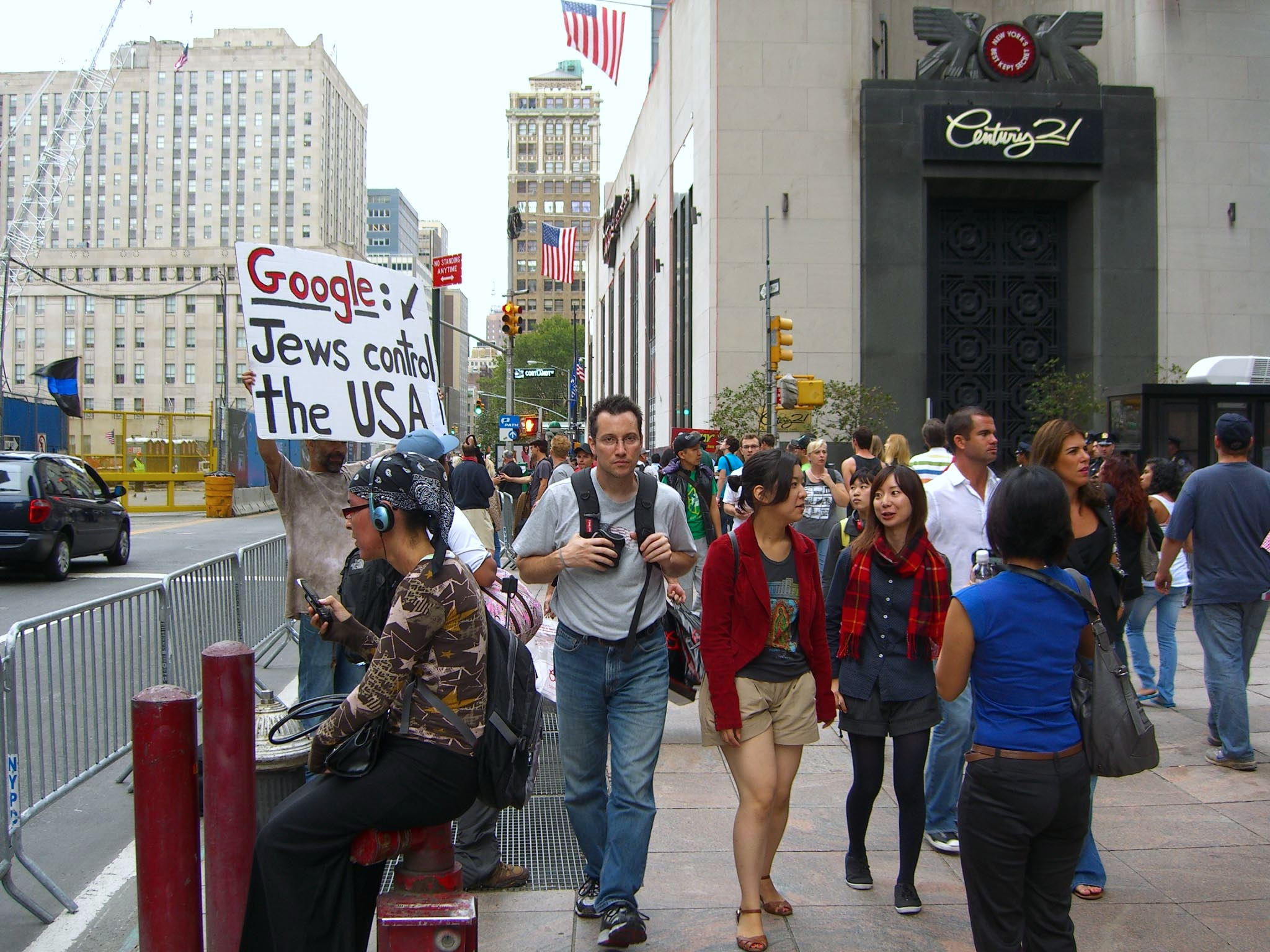 Man holding an anti-Semitic sign on Church Street near the corner of Cortlandt Street, across the street from the World Trade Center site on September 11, 2011, the tenth anniversary of the September 11 attacks. Photographed by Luigi Novi. This photo is not in the public domain. It may, however, be used, modified and published for any purpose, free of charge, only if the photographer is properly credited, either by linking the photograph to this page, or with an easily visible credit to the photographer placed near the photo in each instance in which it is used. (See licensing information below.) Publication of this photo without this proper attribution constitutes copyright infringement. If you have any questions, you can contact me on my Wikipedia Talk Page.